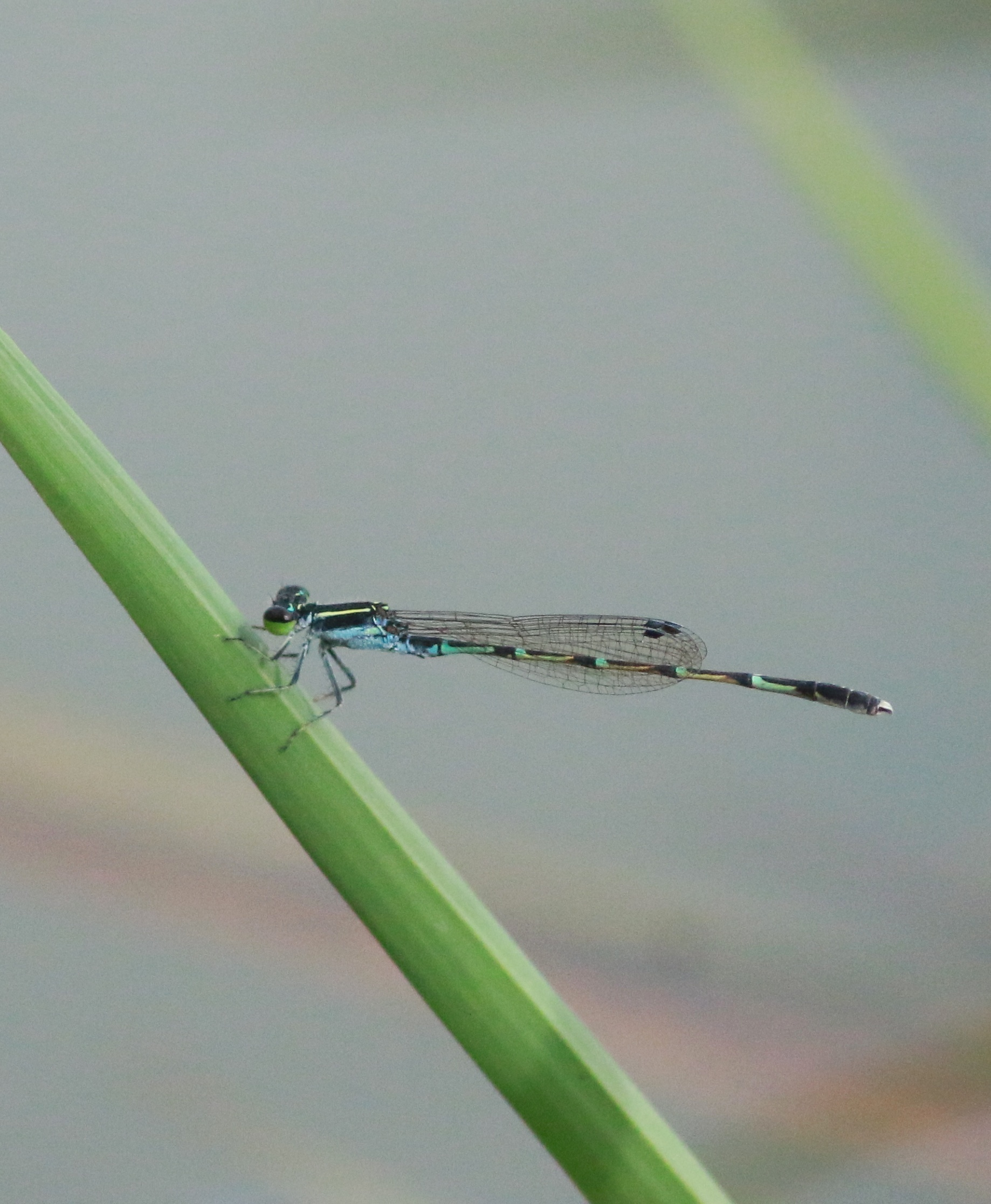 Agriocnemis splendidissima